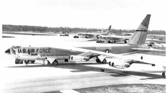 Boeing B-52F-70-BW Stratofortress 57-0174, 454th Bombardment Wing at Columbus AFB, Mississippi